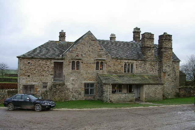 Wortham Manor Near Lifton. Wortham Manor is one of many properties owned and maintained by the registered charity Landmark Trust . As with all their properties Wortham Manor has been restored to its former glory. Its character has been preserved and it is carefully furnished to fit the surroundings. All Landmark Trust properties can be booked for holidays by the general public. Photo taken with Pentax istD Digital SLR.